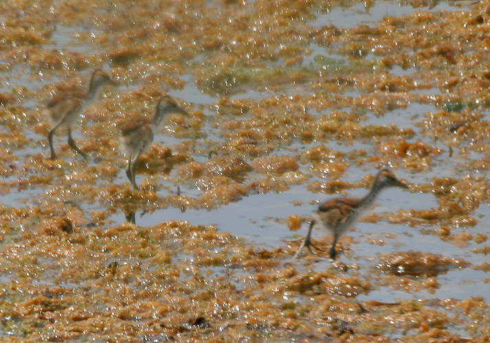 Bronze-winged Jacana Metopidius indicus in Krishna Wildlife Sanctuary, Andhra Pradesh, India.